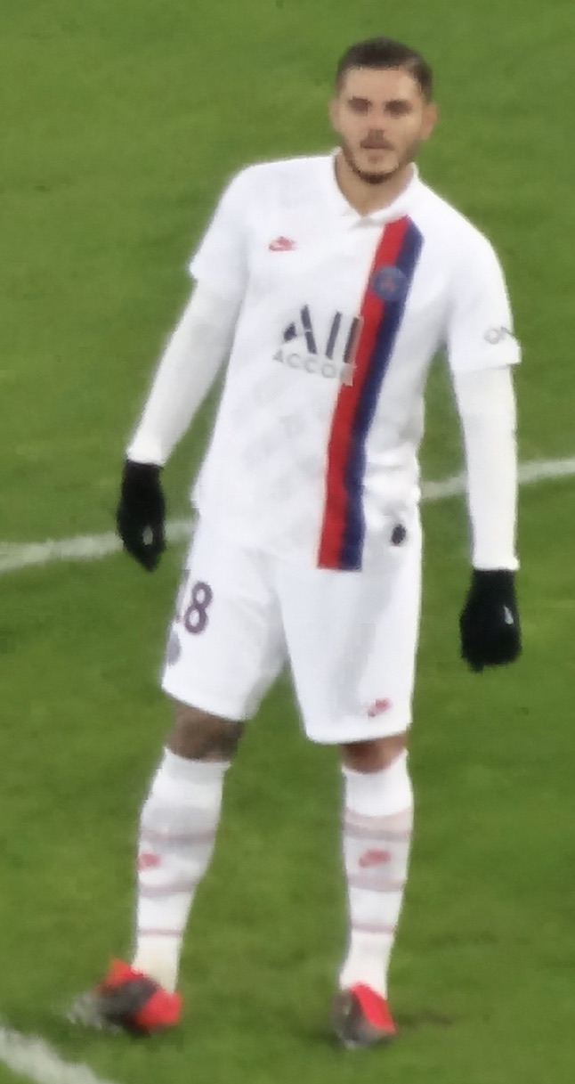 Mauro Icardi (PSG)